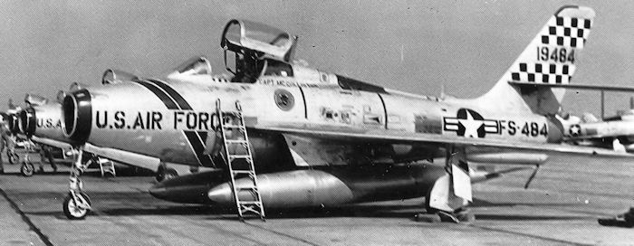 F-84F Thudersteak of the 401st Fighter-Bomber Group